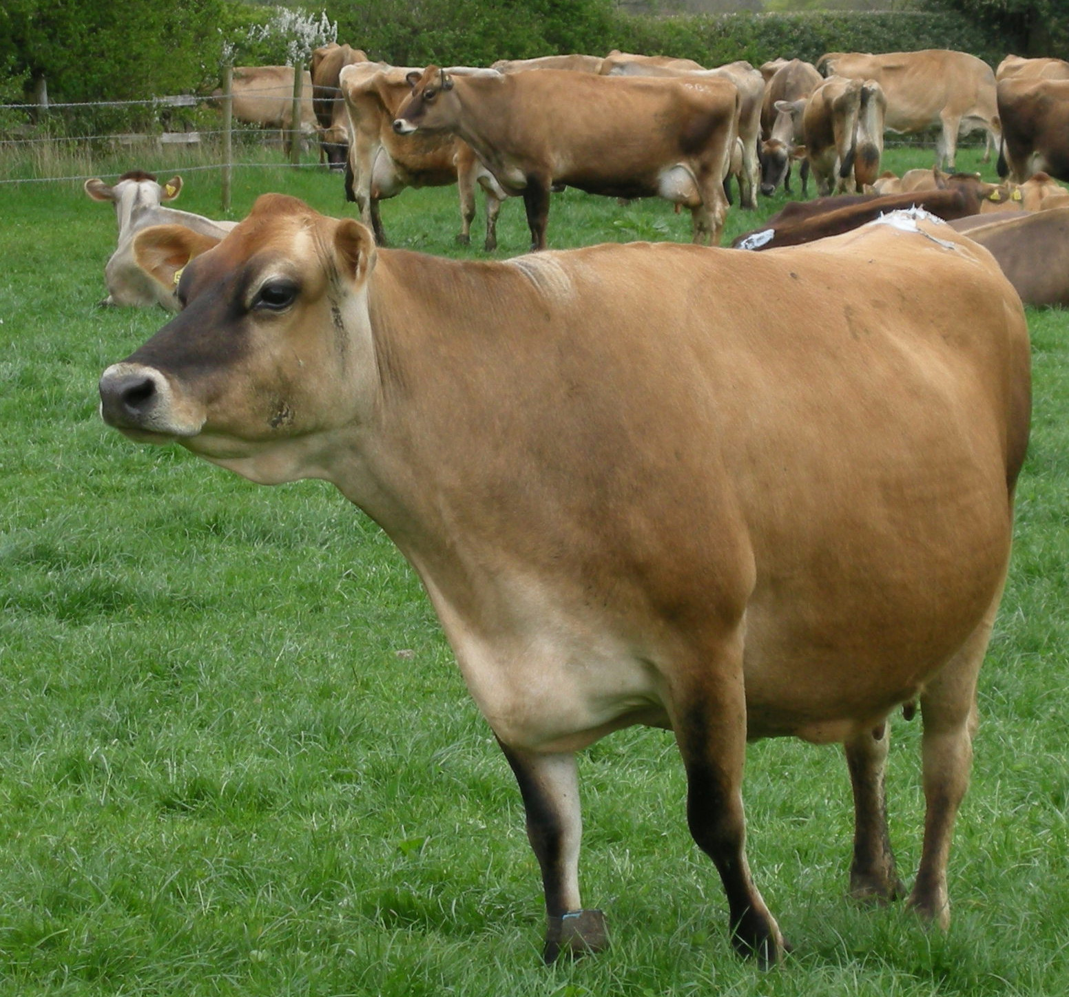 Jersey herd at New Moor Farm, Walworth Gate, County Durham, England, May 2010.